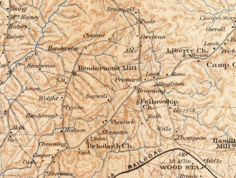 Portion of a map from, Atlas to Accompany the Official Records of the Union and Confederate Armies. 1861-1865 including Henderson's Mill and surrounding area in DeKalb County, Georgia.